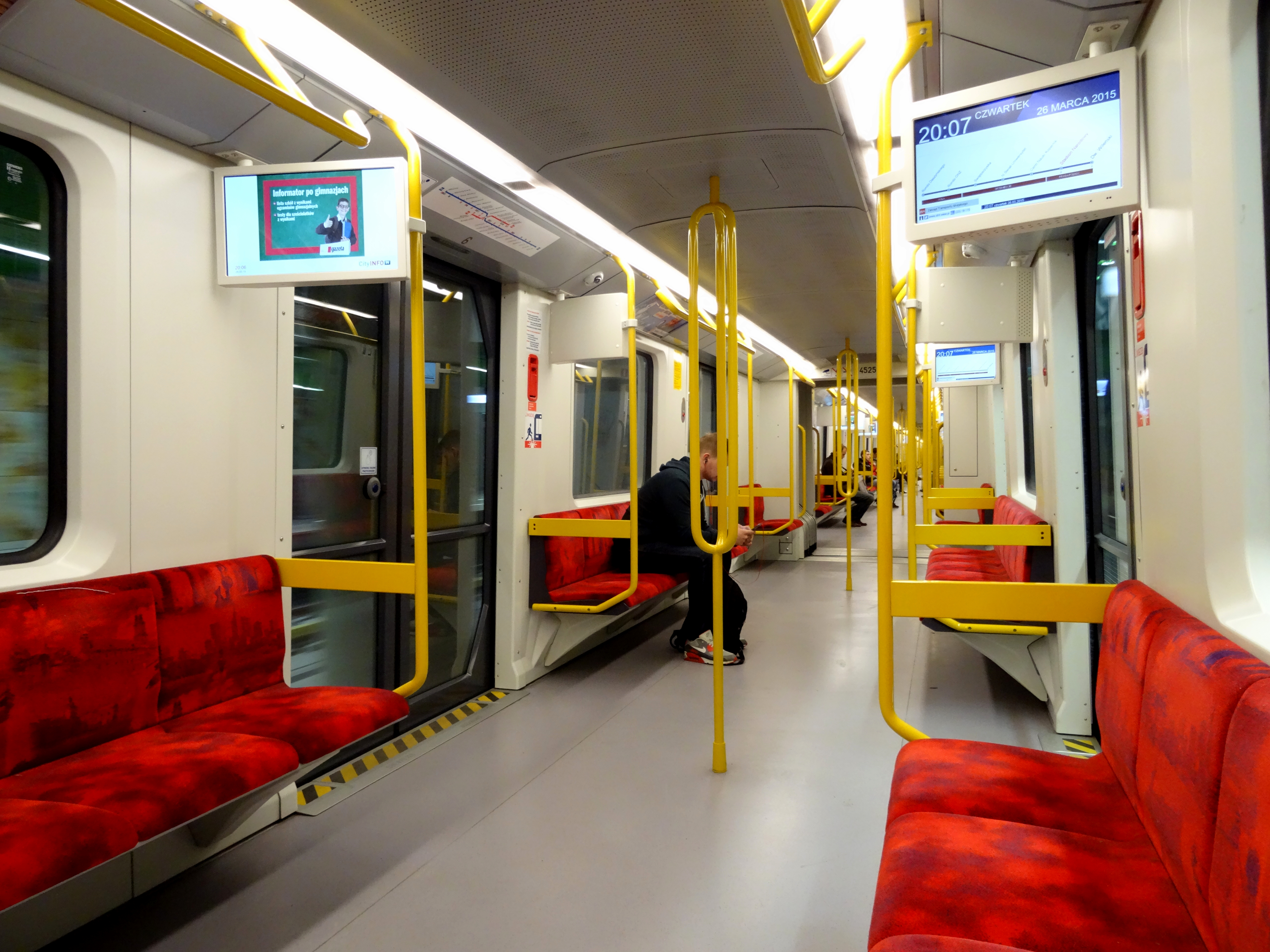 Warszawa - Tabor linii metra M2 - Rolling stock of metro linie M2